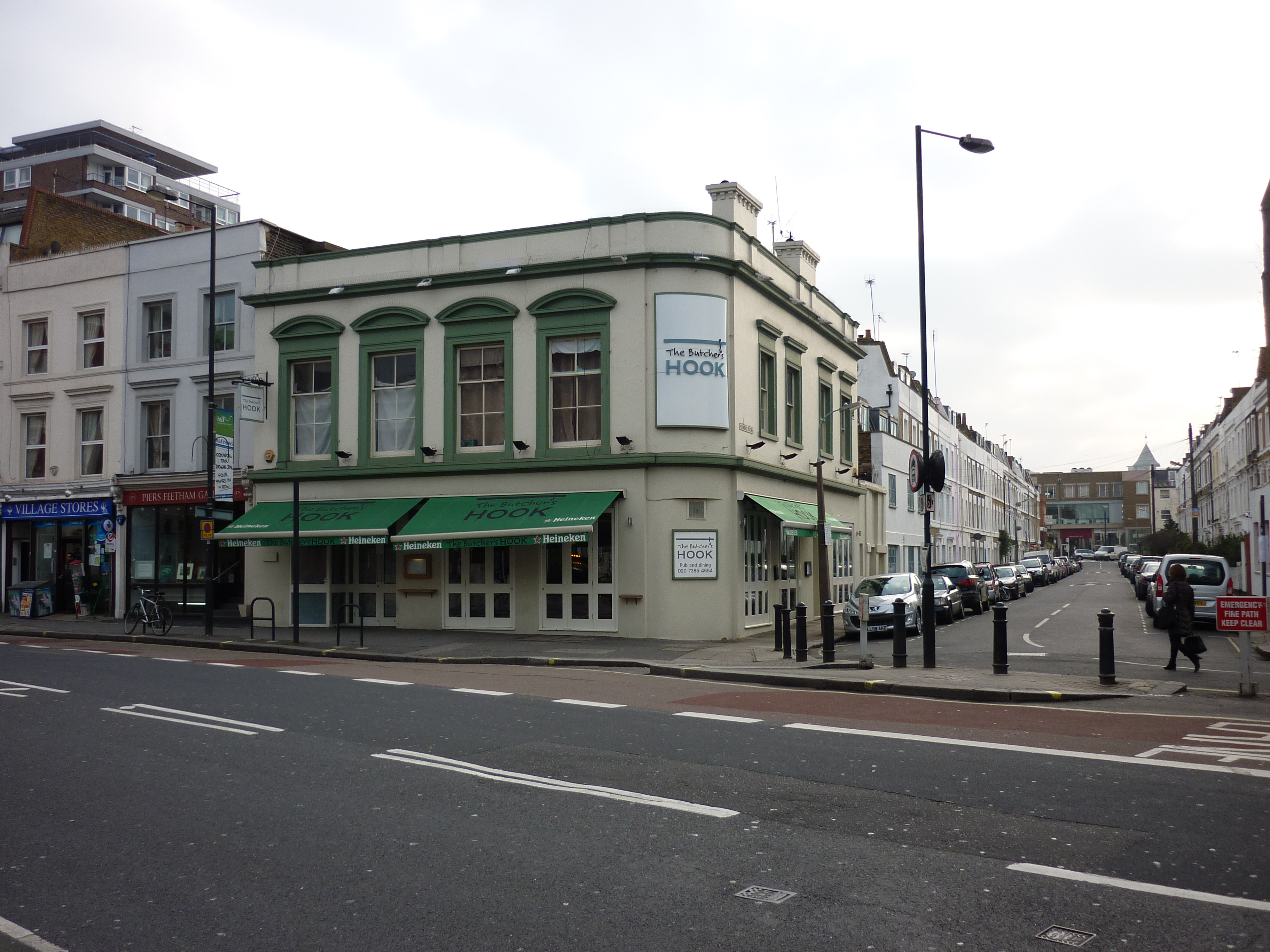 The Butcher's Hook Pub. 477 Fulham Road London, Greater London SW6 1HL. In this pub (formerly known as the Sunrise Pub) Chelsea F.C. was founded in 1905.